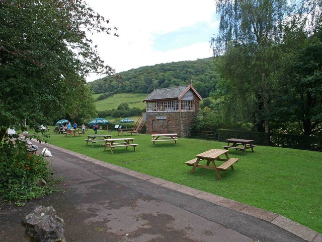 Tintern signal box and picnic area